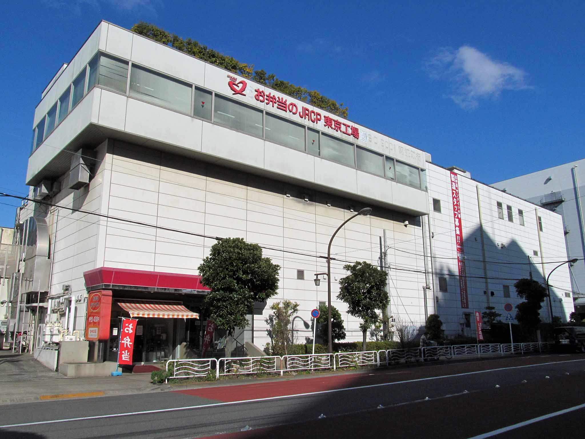 JR-Central Passengers Tokyo Central Kitchen in Koto Ward, Tokyo, Japan